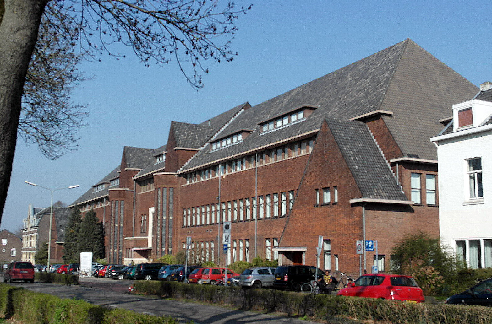 Maastricht, the Netherlands. View from Brusselseweg of the PABO teachers training college, formerly called Saint Mary Immaculata School.